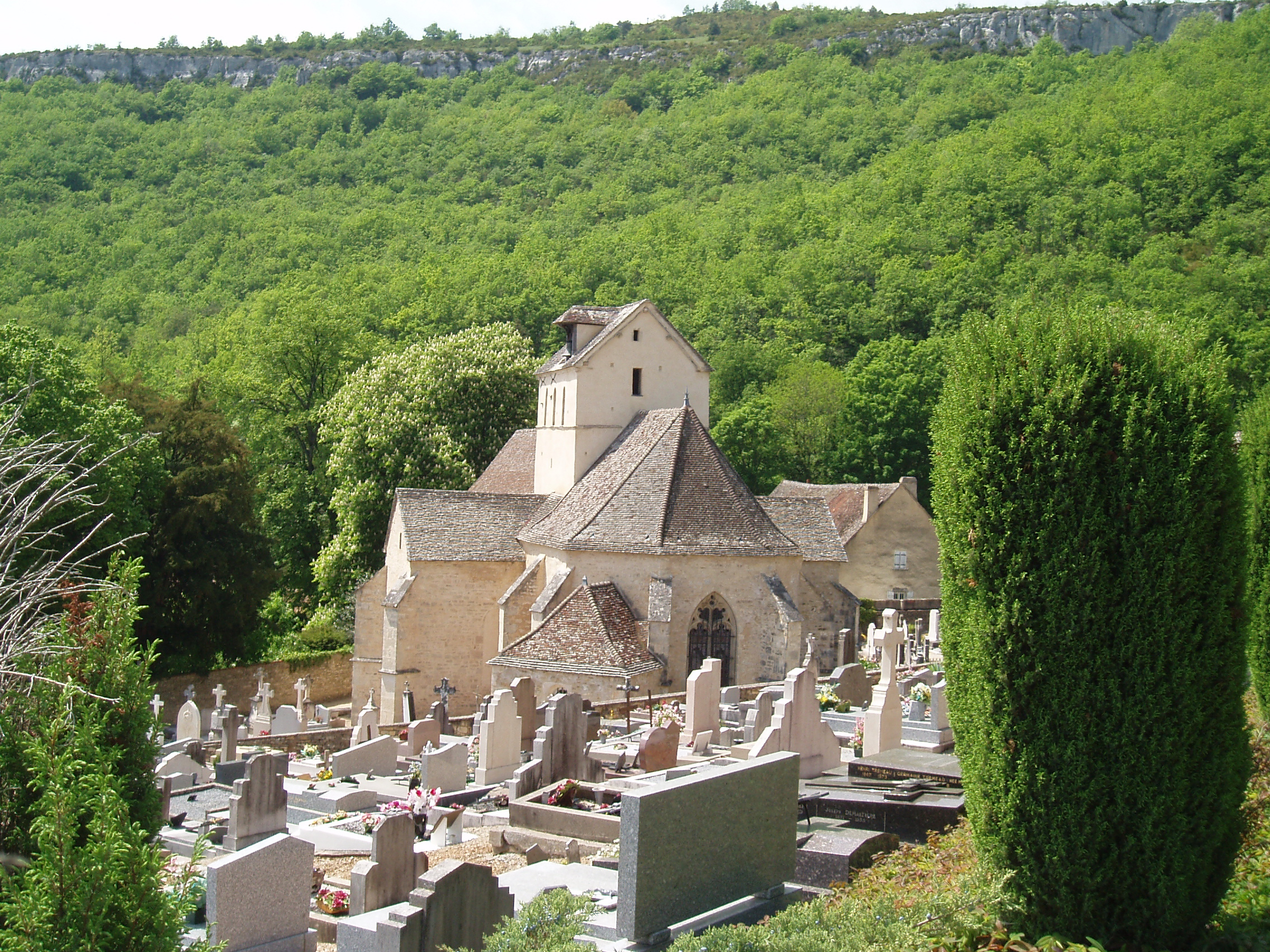 Church and graveyard of Saint-Jean de Narosse, town of Santenay, Côte-d'Or, France